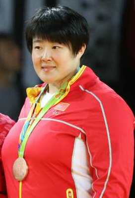 Yu Song is a Chinese judoka from Qingdao. Bronze medal in Rio 2016